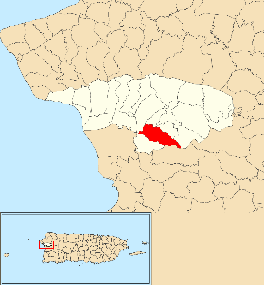 Ovejas, Añasco, Puerto Rico locator map